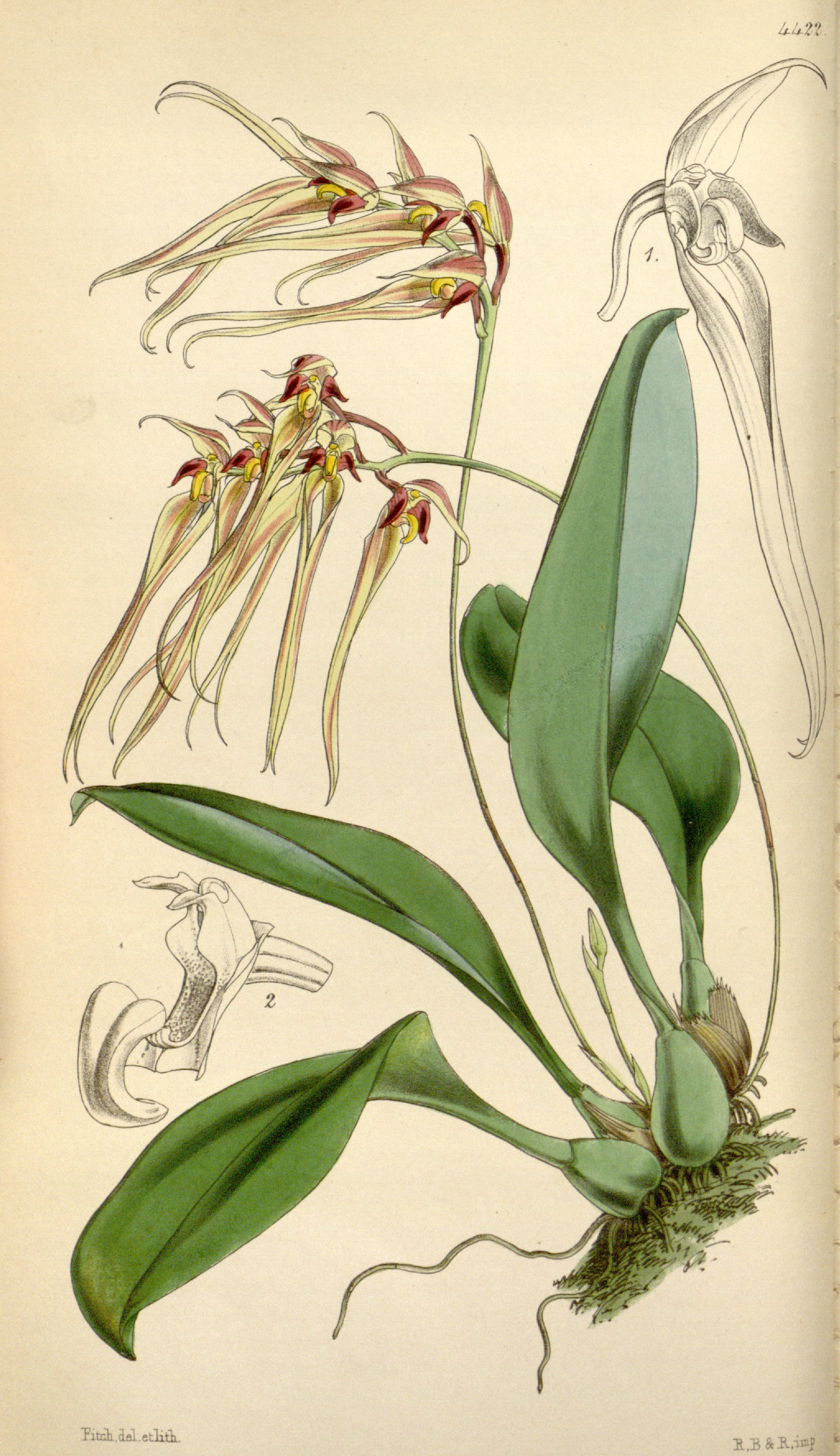 Illustration of Bulbophyllum macraei or Cirrhopetalum macraei